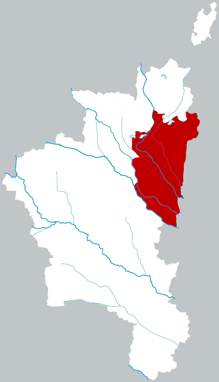 Location of Lieshan district in Huaibei city, China